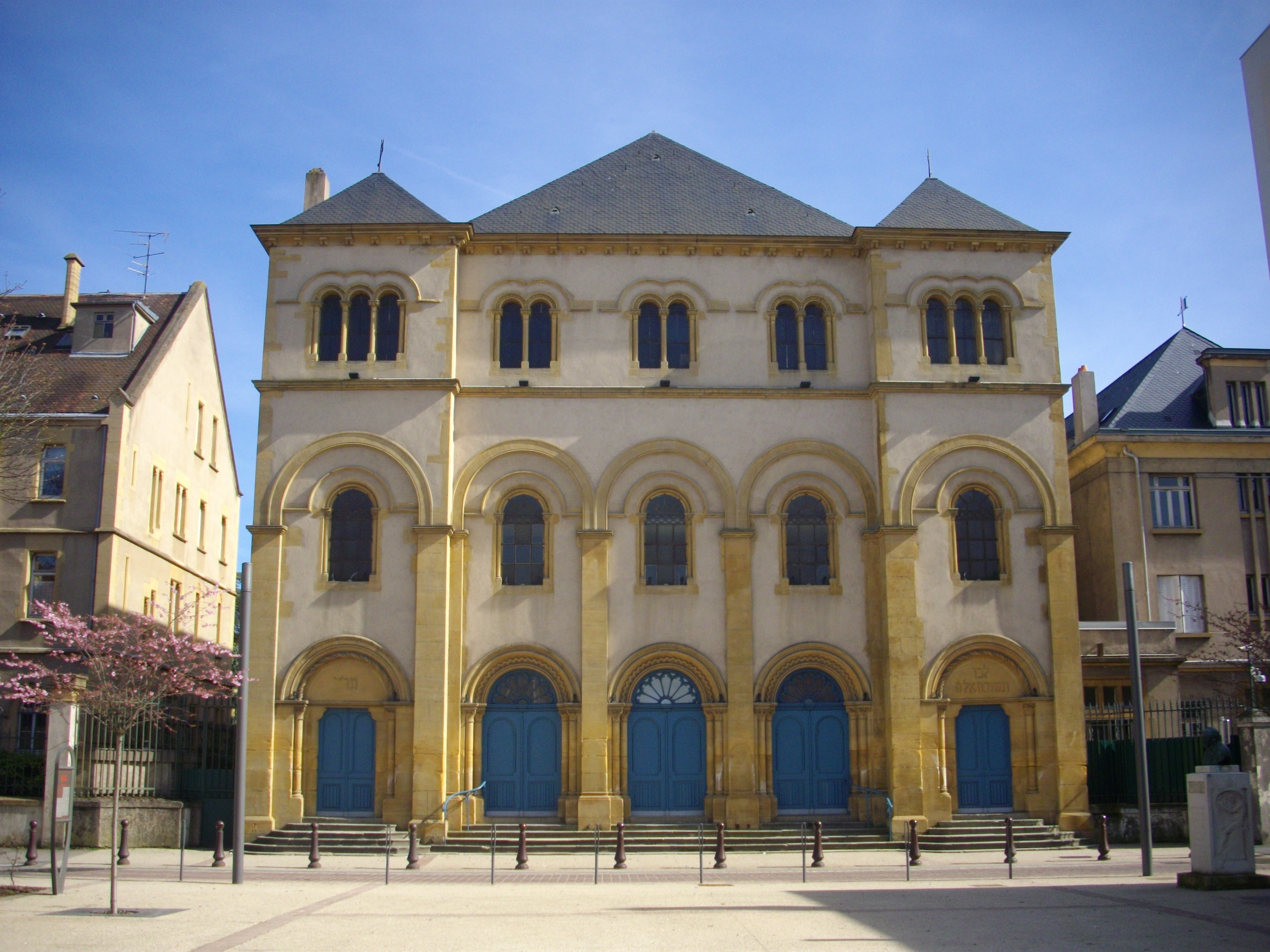 Metz synagogue (Moselle, France) .